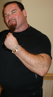 Neidhart in Windsor, Ontario in July of 2005.